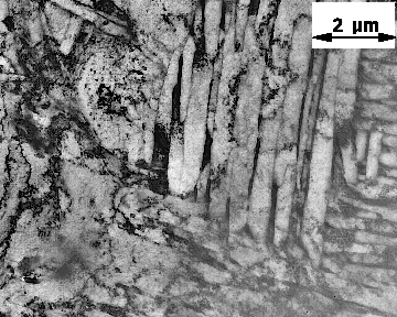 Bainitic zone in welding of DQSK (draw quality semi-killed) steel (mild steel). Transmission electron microscopy (TEM) image.